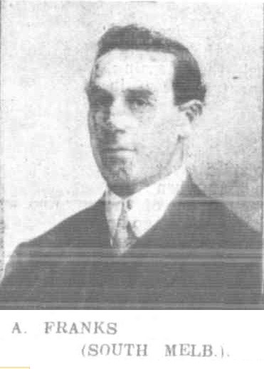 Photograph of Bert Franks featured in Punch Newspaper in 1907